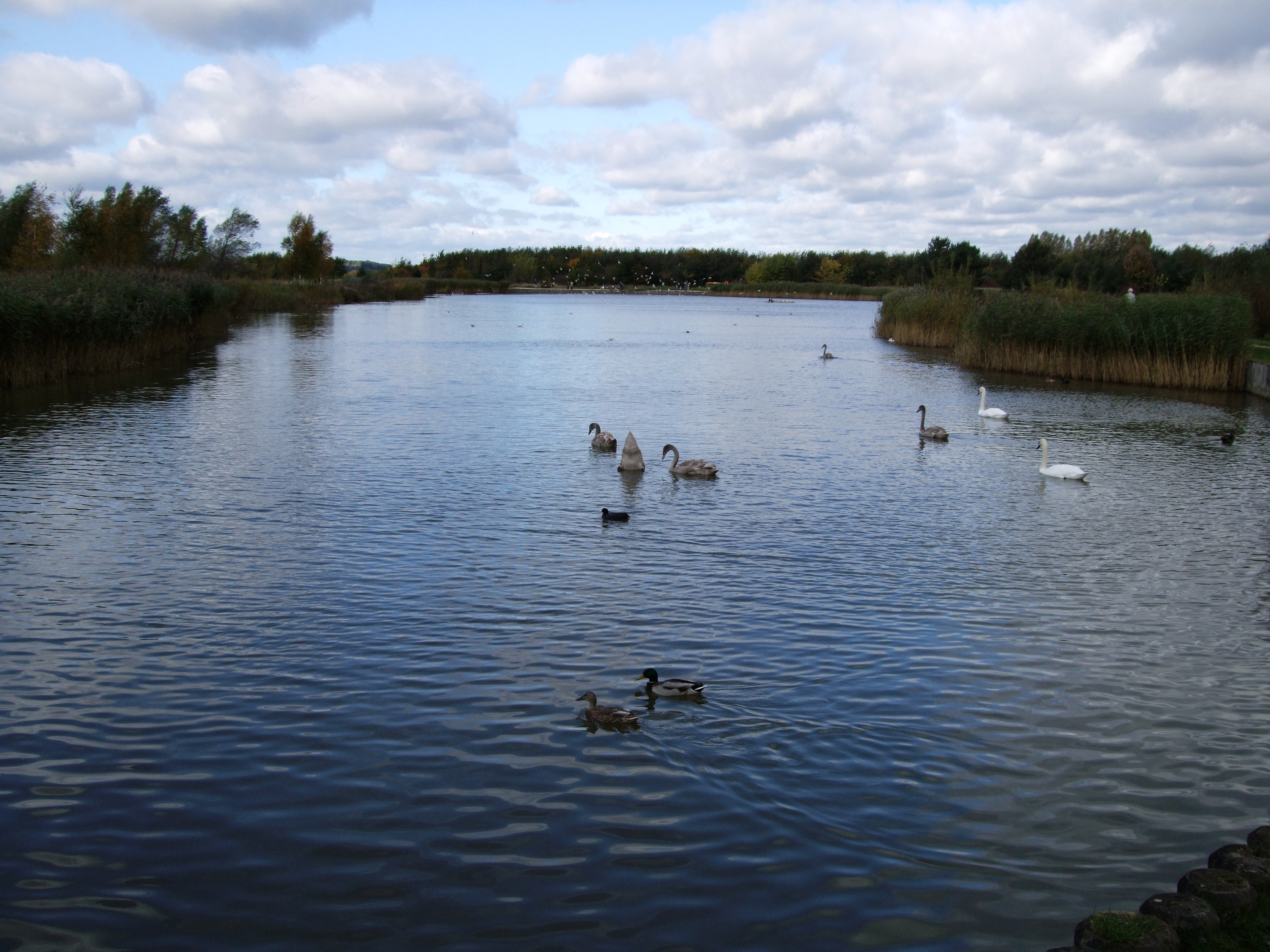 Rushcliffe Country Park Lake